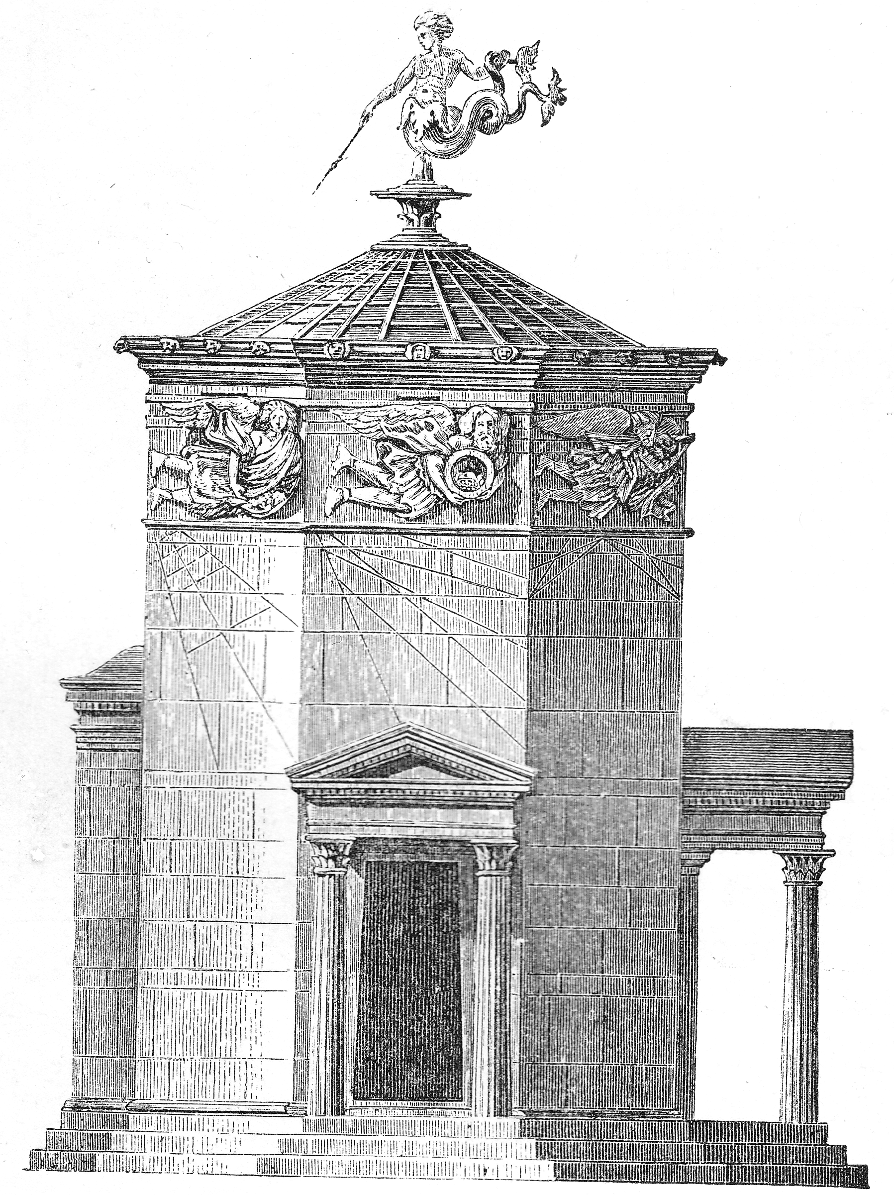 Illustration from Illustrerad verldshistoria by E. Wallis, volume I "The Tower of the winds."